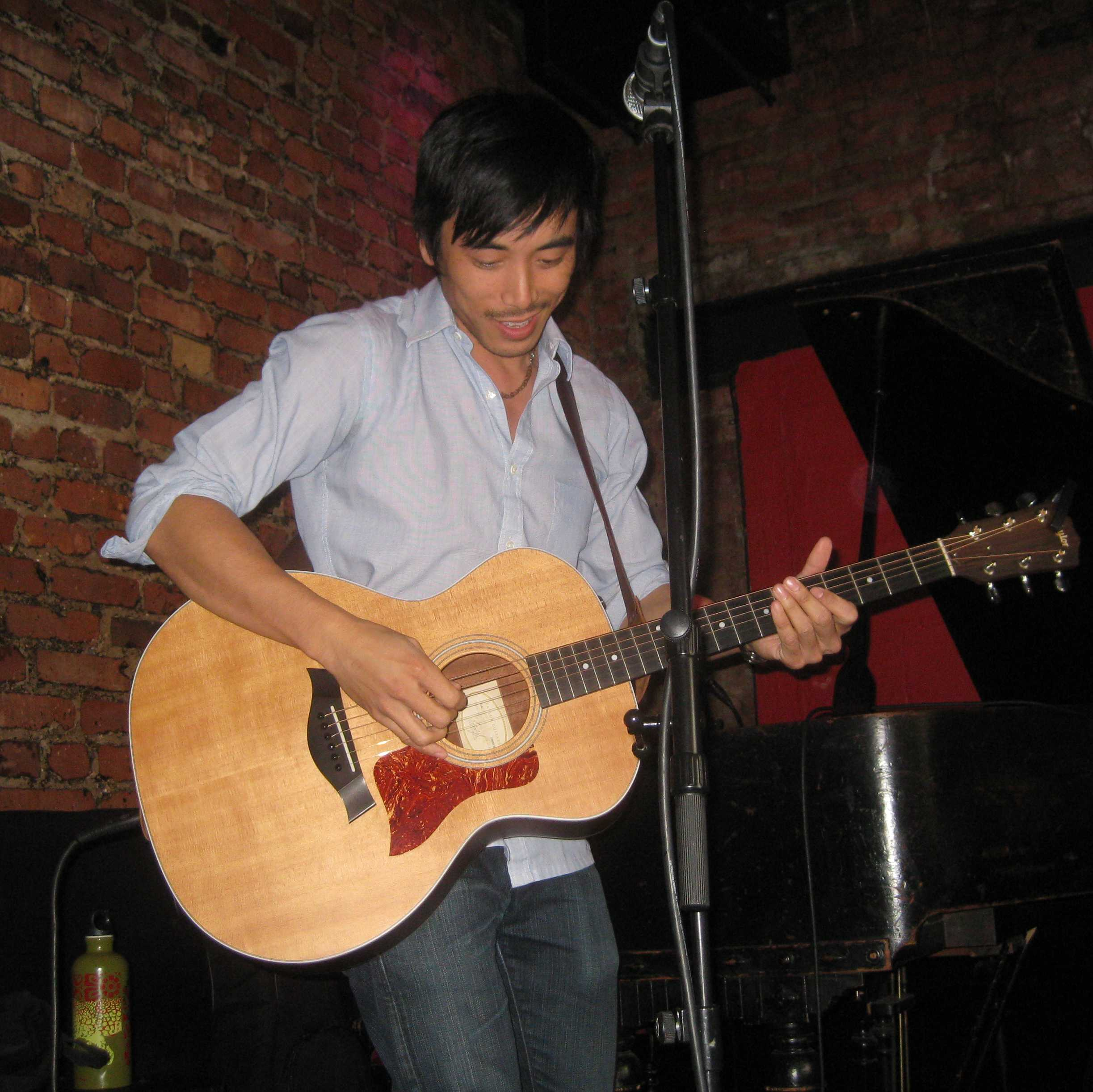 Alex Wong playing guitar at Rockwood Music Hall